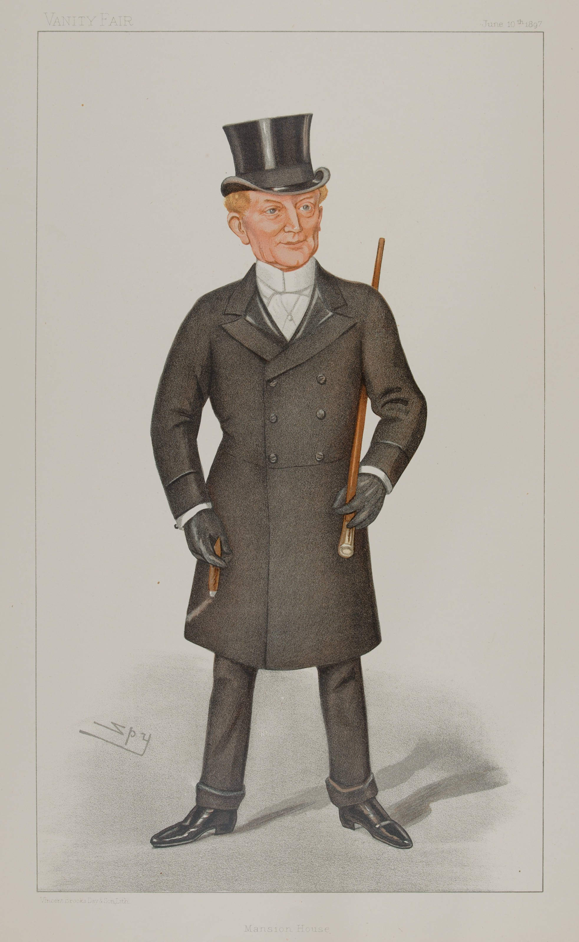 Men of the Day No. 683: Caricature of George Faudel-Phillips, Lord Mayor of London. Caption read "Mansion House".